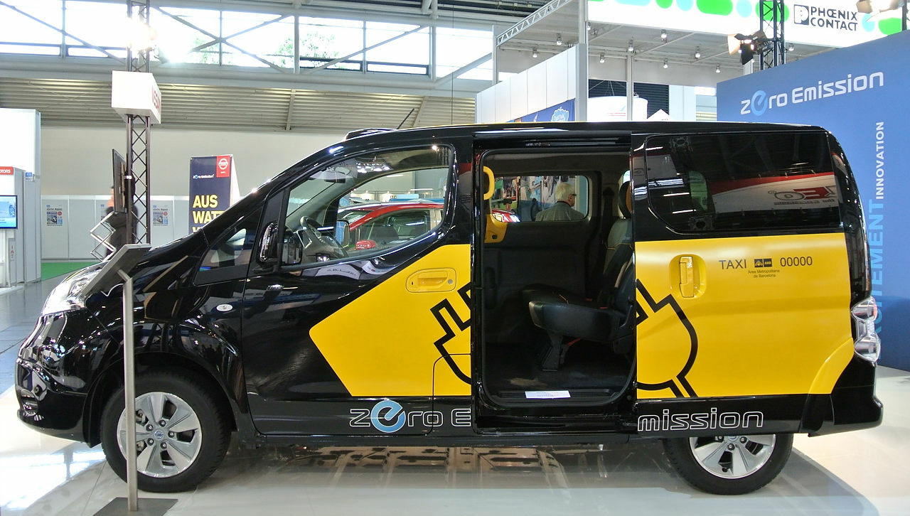 eCarTec Munich 2013: Nissan e-NV200 taxi